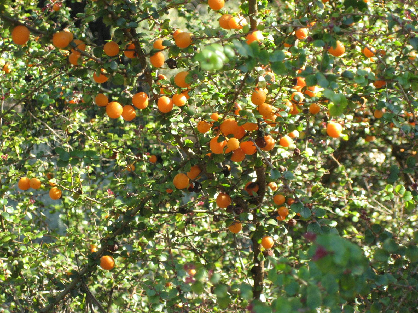 Photographed at Huntington Gardens (Los Angeles) in March